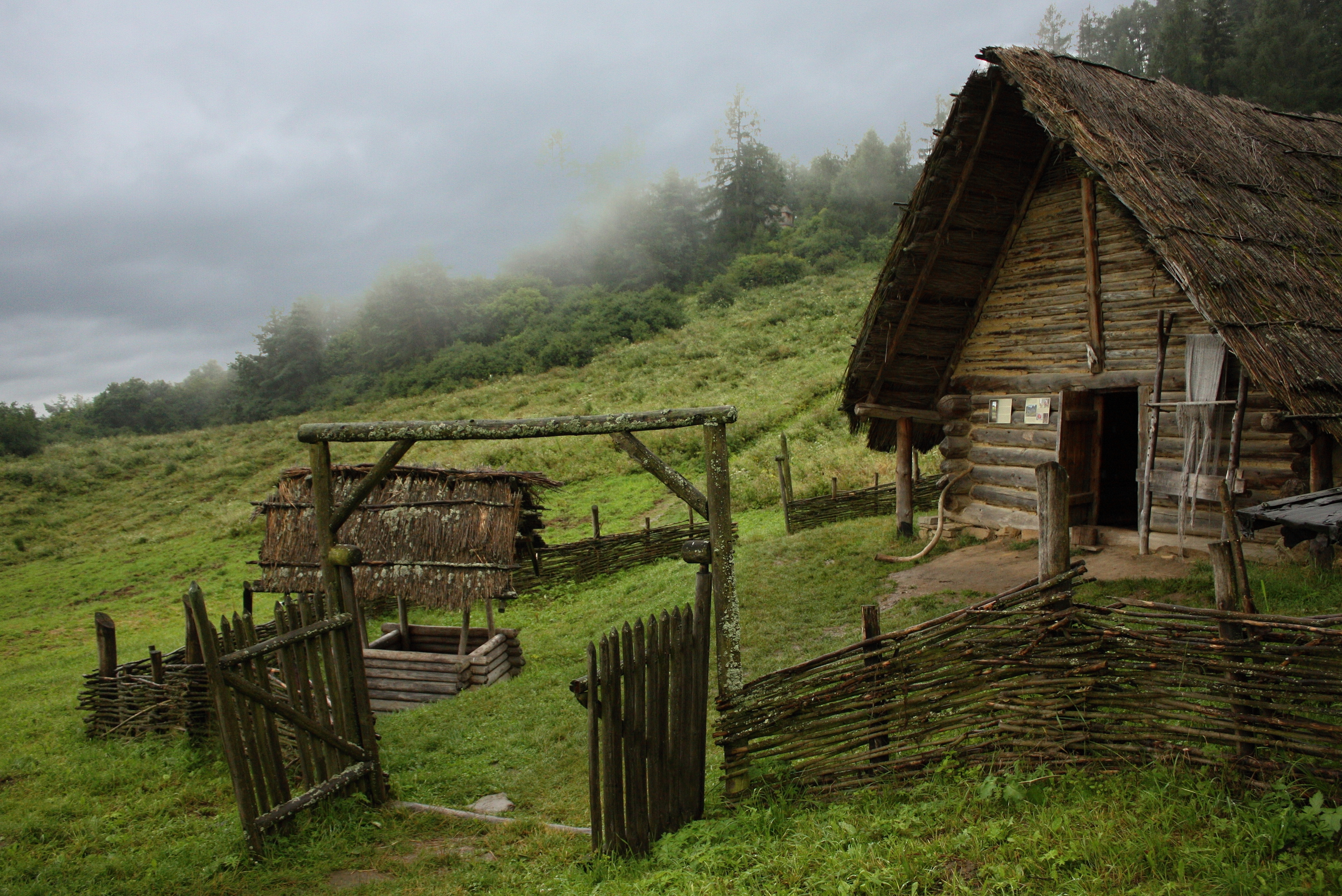 Open-Air Archaeological Museum Liptovska Mara - Havranok,Slovakia. Reconstructed shape of a farmstead from the Upper Iron Age (300-100 B.C.